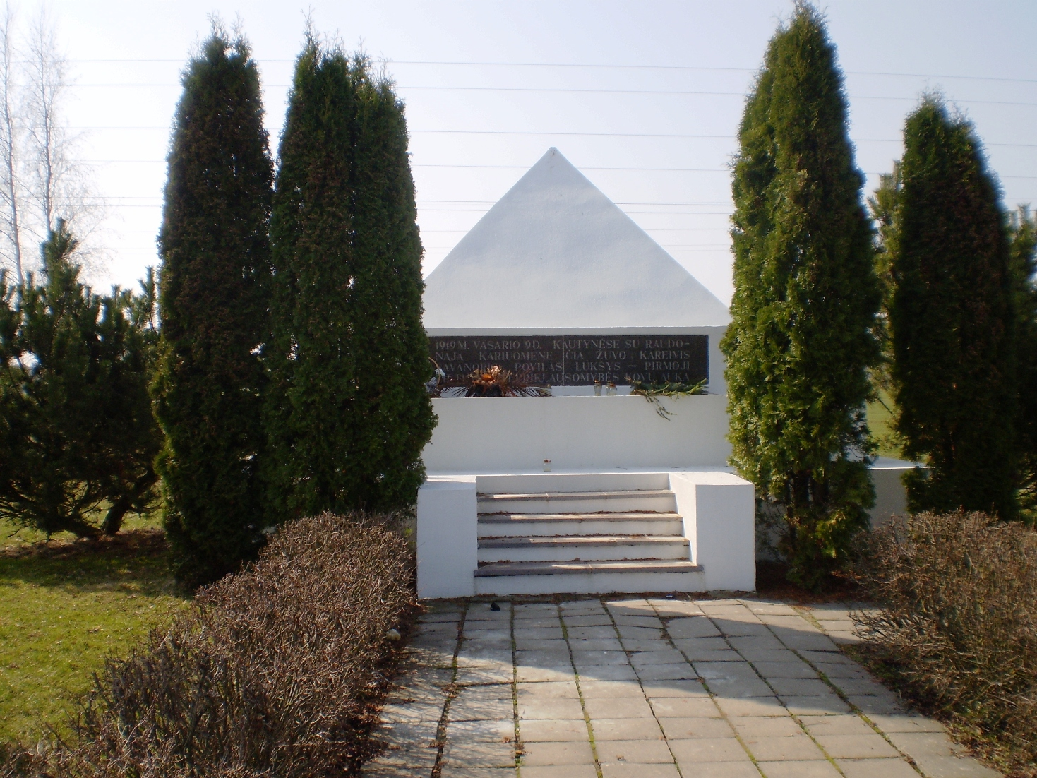 The place where died the first soldier of free Lithuania Povilas Lukšys at 1919. Taučiūnai village, Kėdainiai dst.